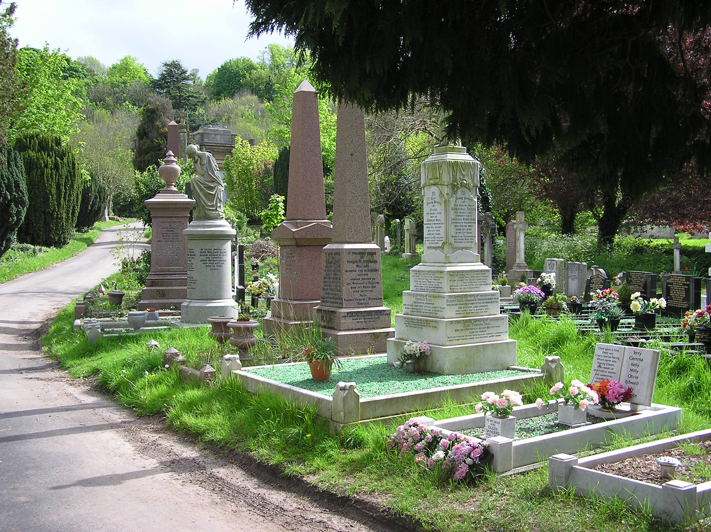 A view of part of Arno’s Vale Cemetery in Bristol, England.